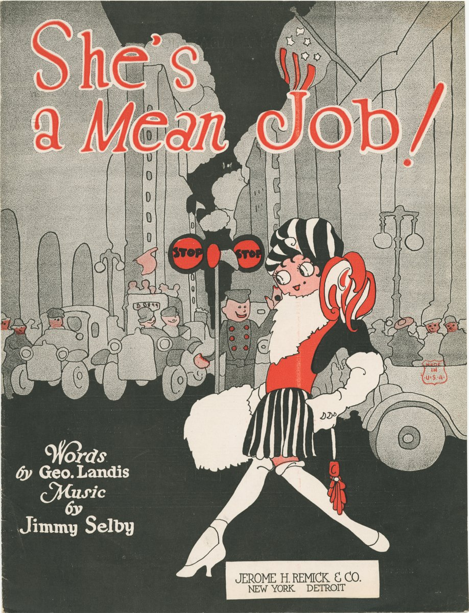 "She's A Mean Job" sheet music cover.